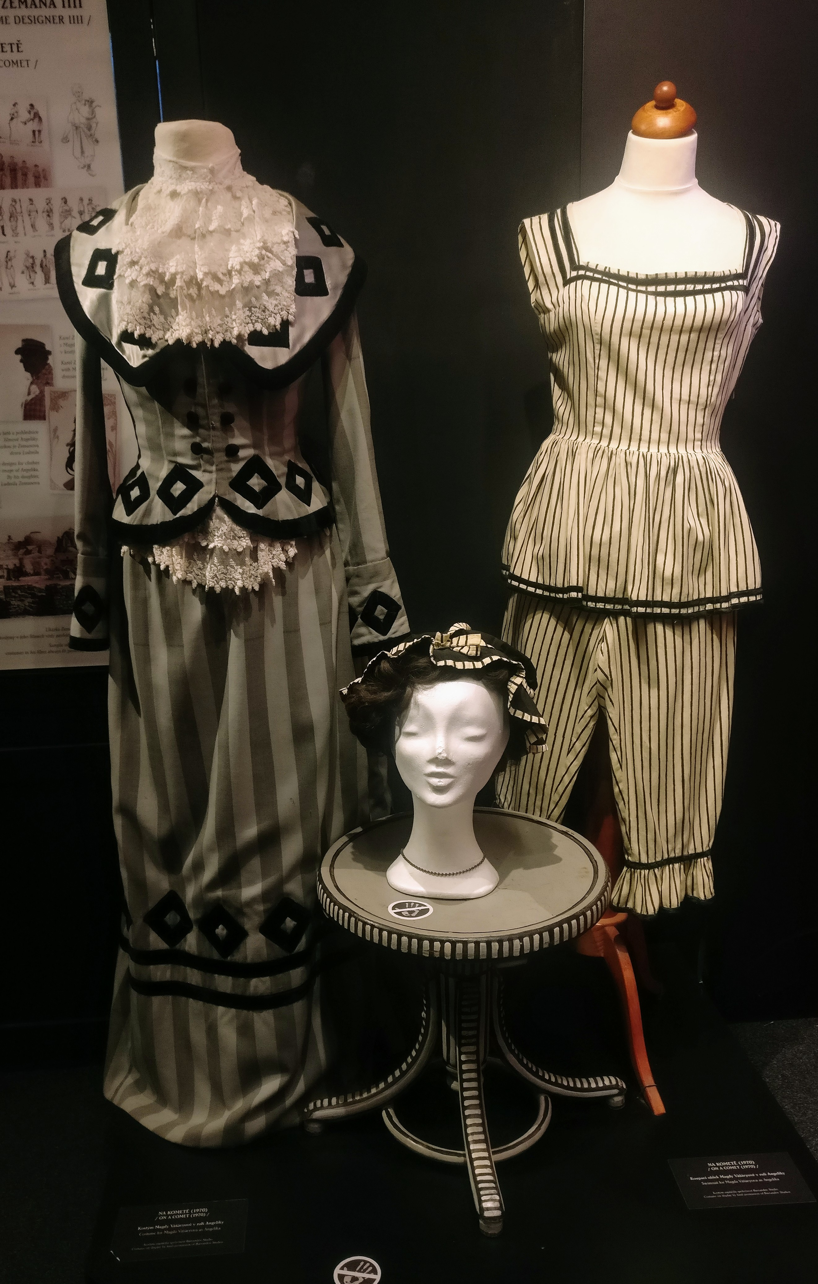 Costumes for Magda Vášáryová from the 1970 Karel Zeman film On the Comet